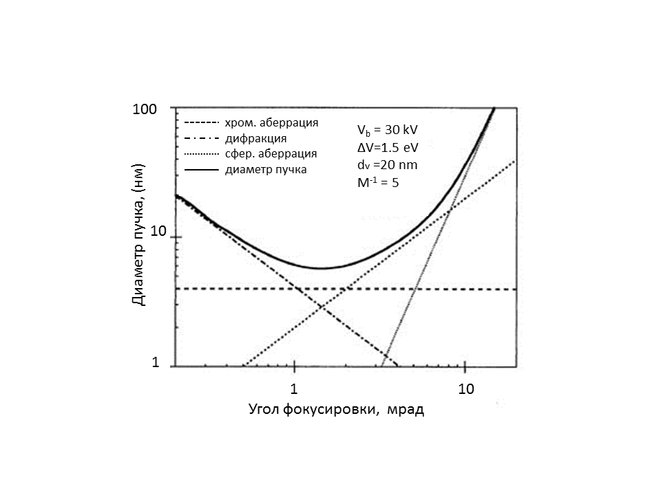 The influence of the achromatic, spherecal abberation and the diffraction on the 'lectron beam size.